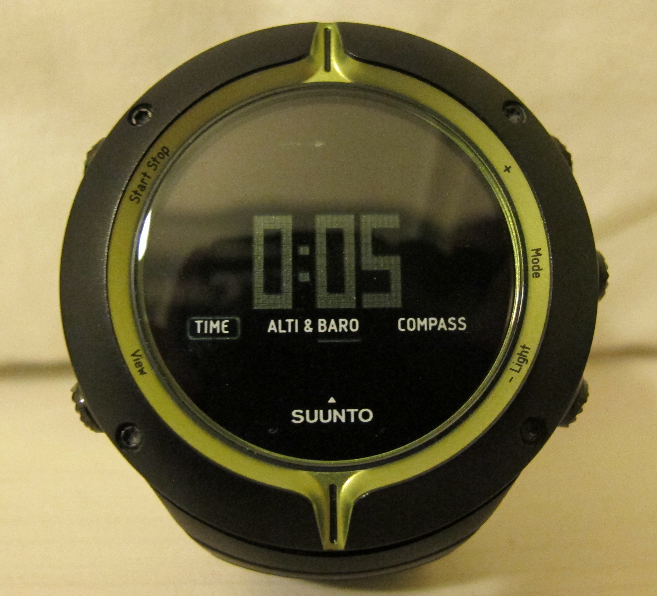 Suunto Core Anniversary Edition